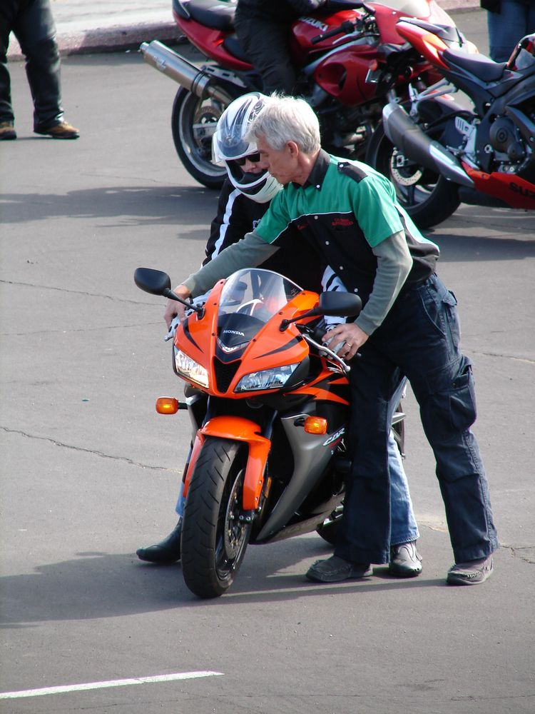 Keith Code at California Superbike School at controls of Honda CBR600RR with rider